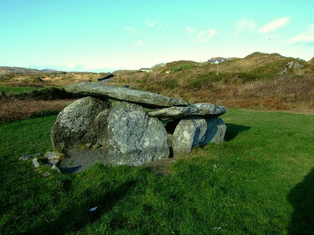 Wedge tomb at Toormore, County Cork Although very close to the main road, it is now easy to pass without spotting it due to unchecked growth of gorse and heather.